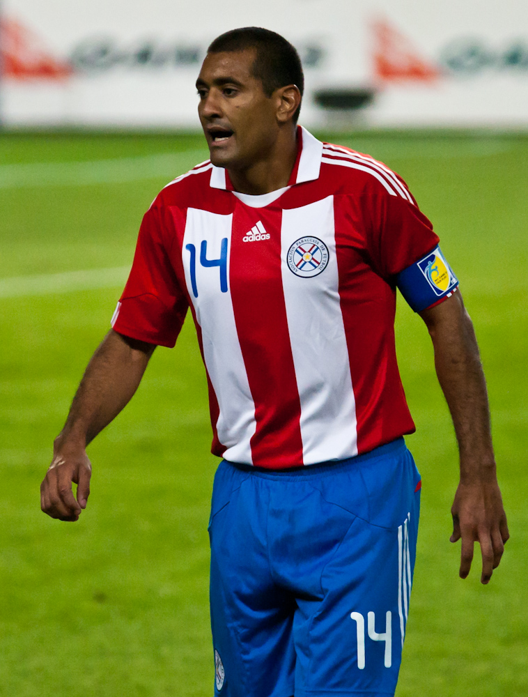 Paulo Da Silva playing for the Paraguay national football team in a friendly match against Australia at the Sydney Football Stadium.